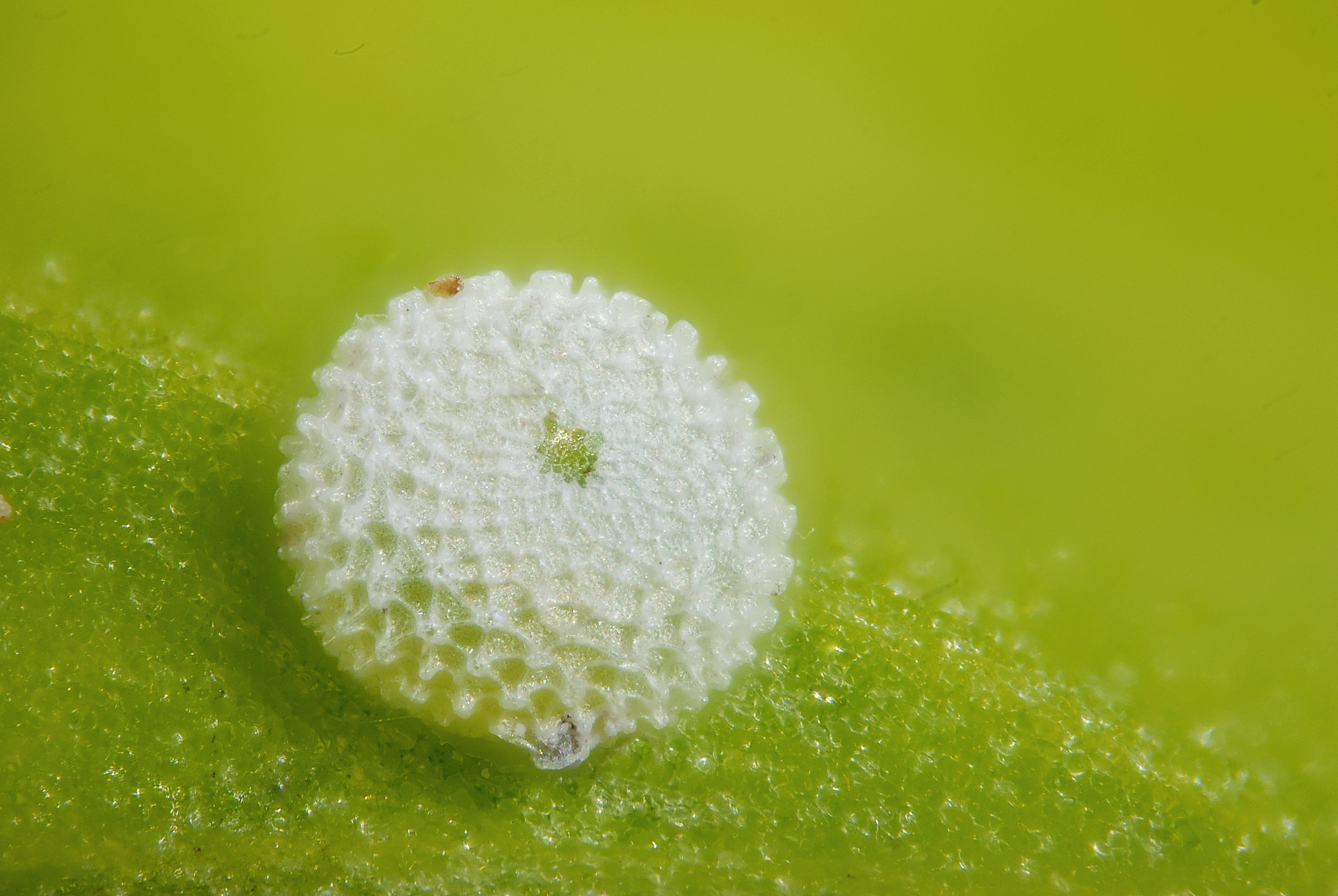 Egg of the butterfly Polyommatus icarus on a leaflet of one of its host plants, Medicago sativa. Scale : egg width = 0.5 mm Technical settings : - focus stack of 61 images - microscope objective (Nikon achromatic 10x 160/0.25) on bellow (160 mm extension)